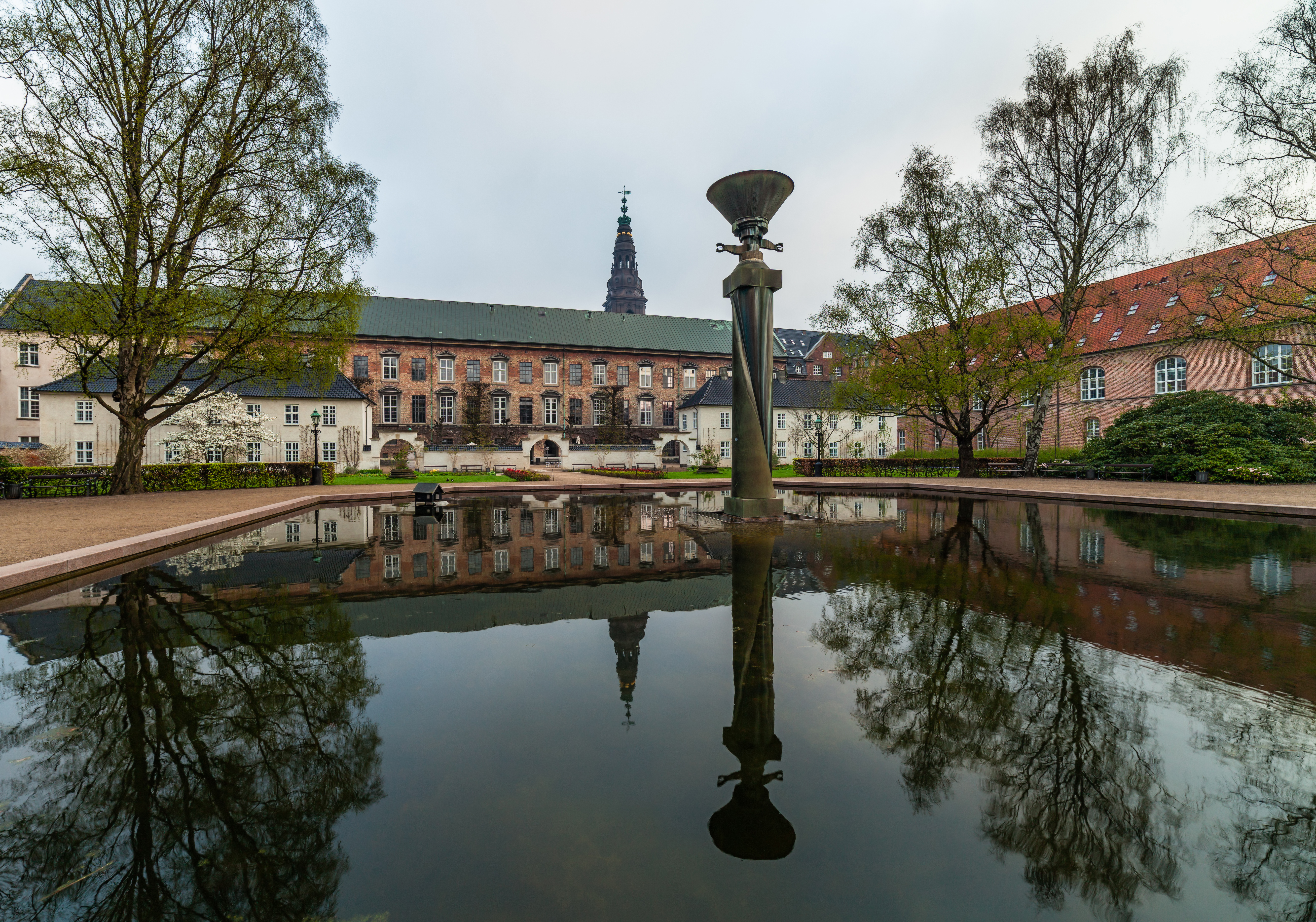 Proviantgarden, Copenhagen, Denmark.